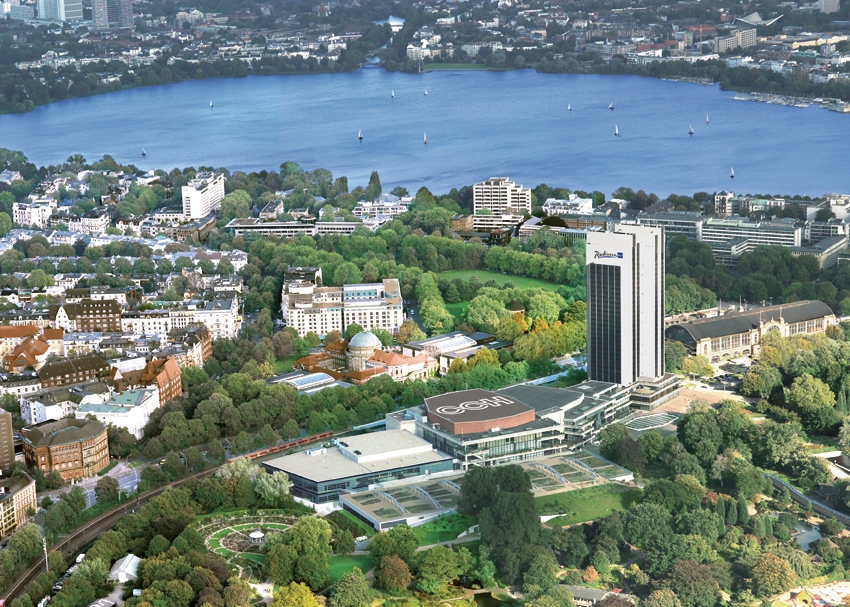 Aerial view of CCH - Congress Center Hamburg against the background of the Alster